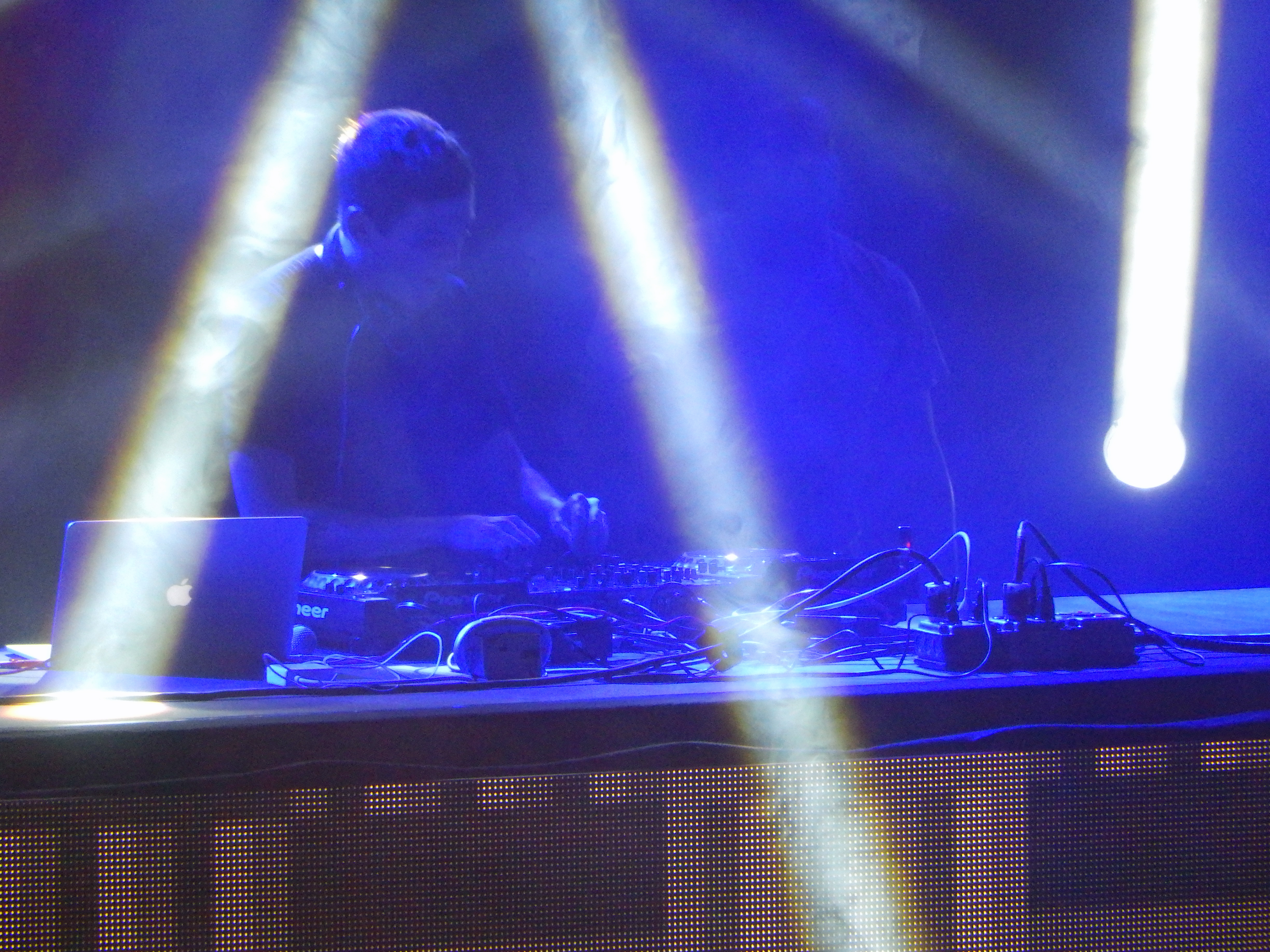 Dillon Francis @ Aragon, Chicago 12/14/2013